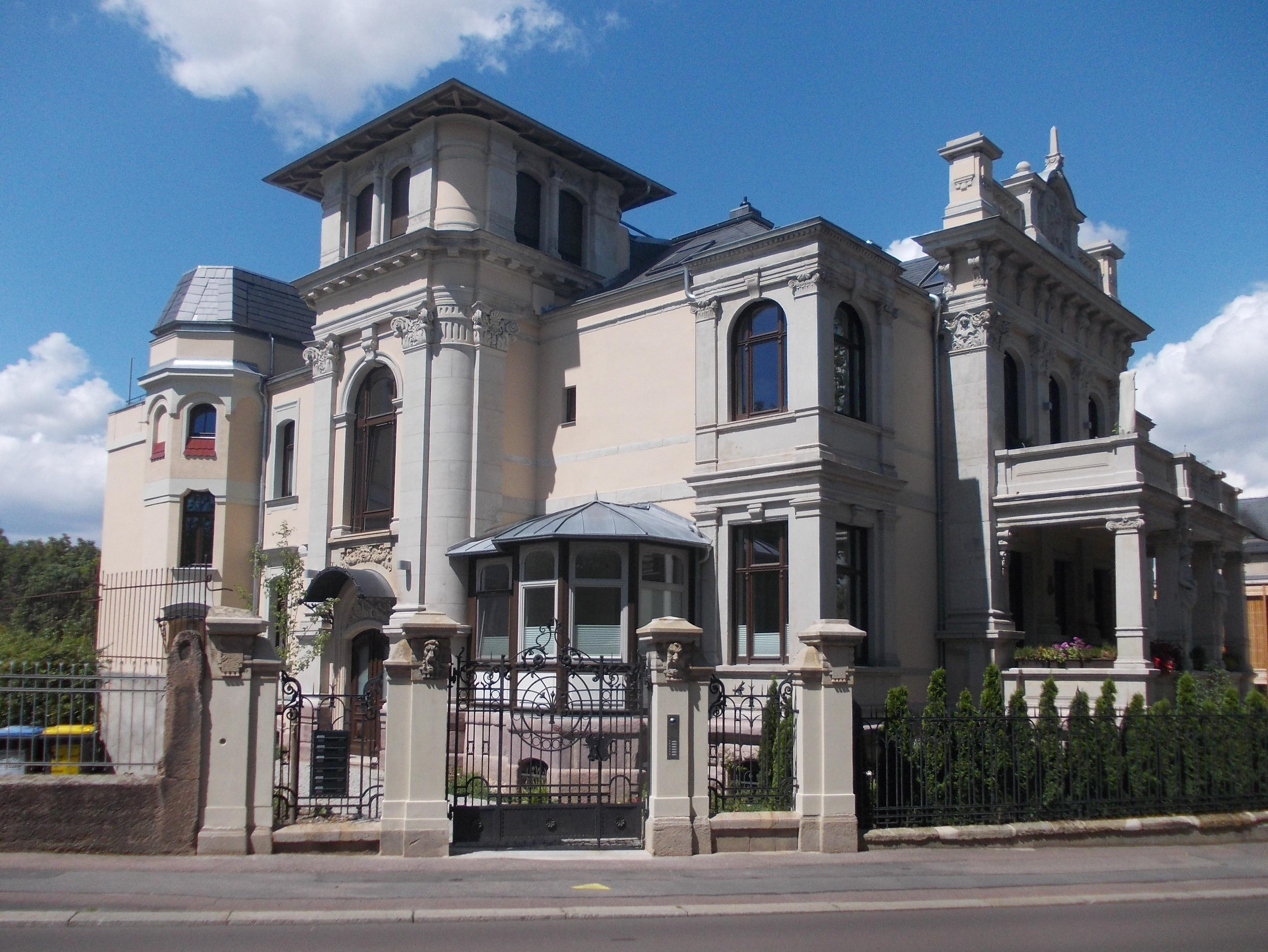 Villa Engelmann, No. 6, Neuwerk in Halle/Saale (Saxony-Anhalt)